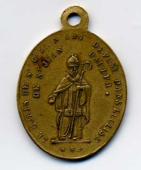 Médaille de saint Guérin. Elles étaient vendues lors des pèlerinages